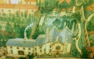 Photograph of display panel in Louth Museum showing Louth Vicarage (now Rectory) as depicted by William Brown (1788-1859) in 1847.